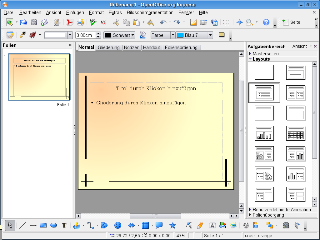 Impress (Linux, KDE, German)